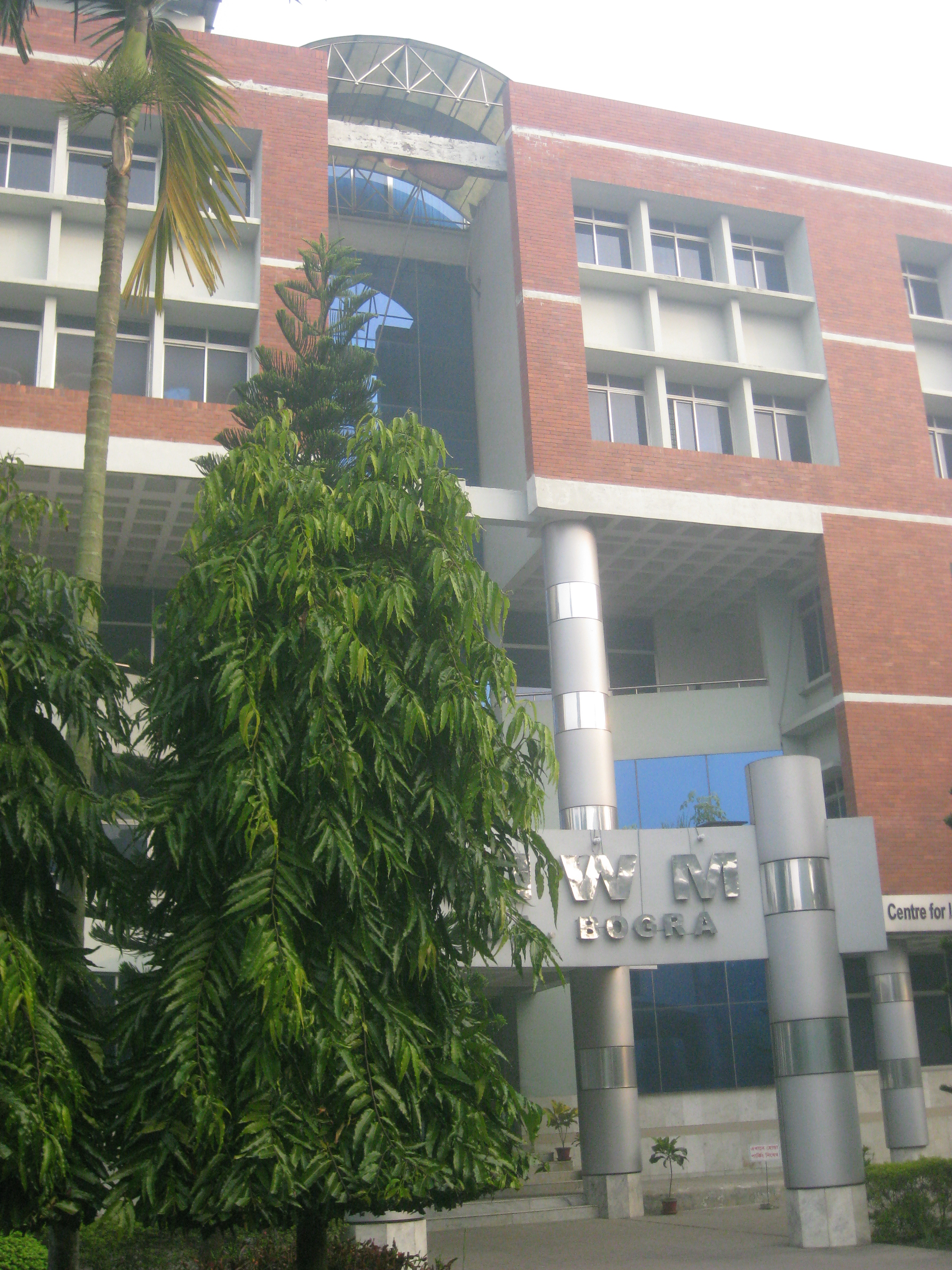 Rural Development Academy, Bogra